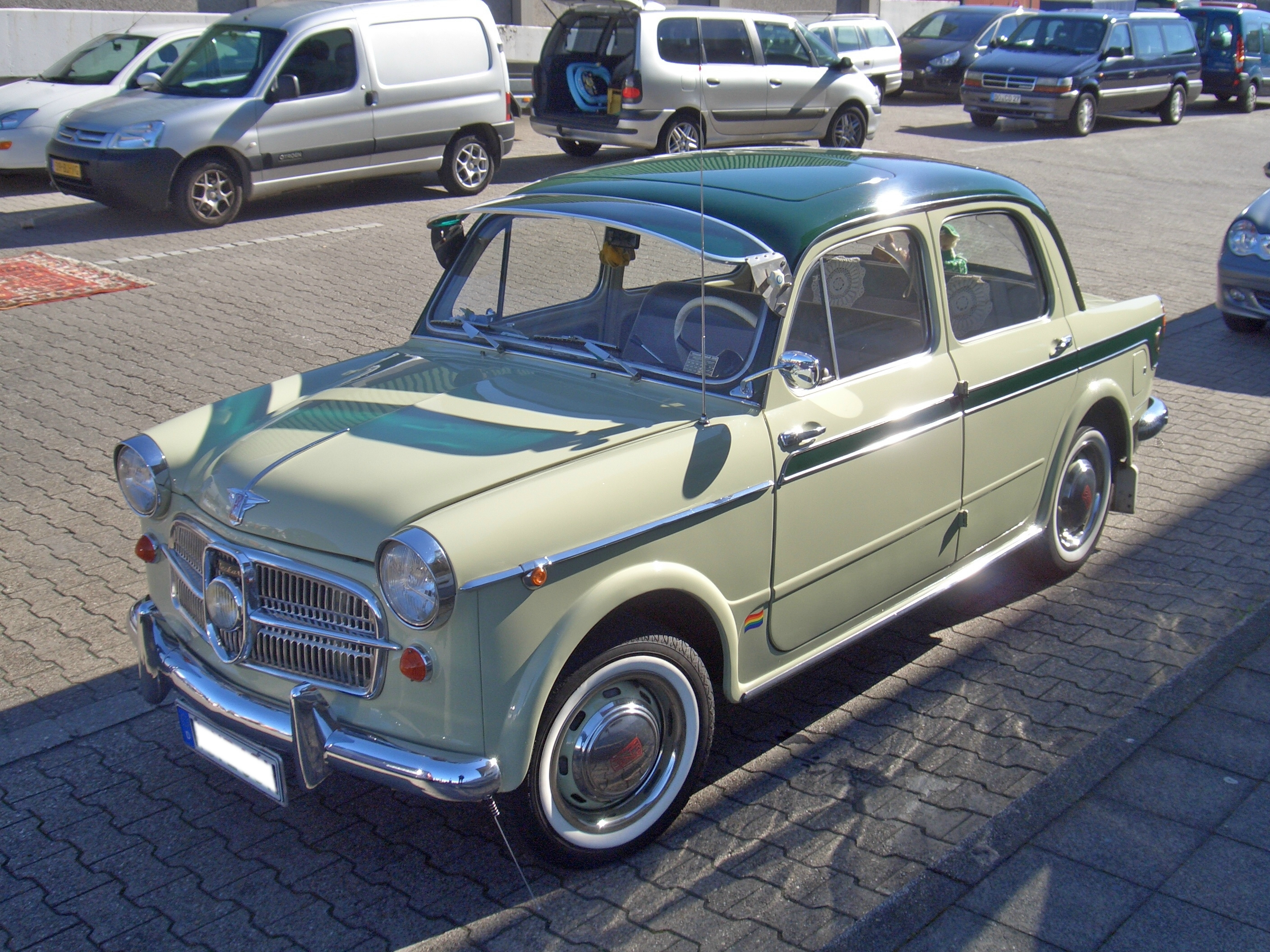 NSU-Fiat Neckar, license production of Fiat 1100-103, 1953-1969